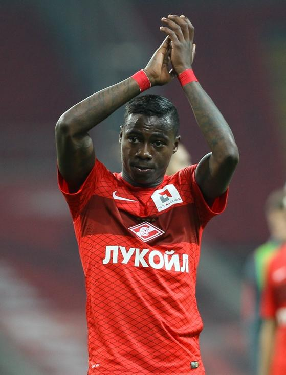 Quincy Promes playing for Spartak against FC Terek Grozny.